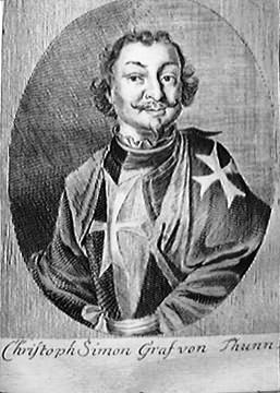 Christoph Simon von Thun (1582-1635) war Prior des Johanniterordens in Ungarn sowie Obersthofmarschall von Ferdinand III.